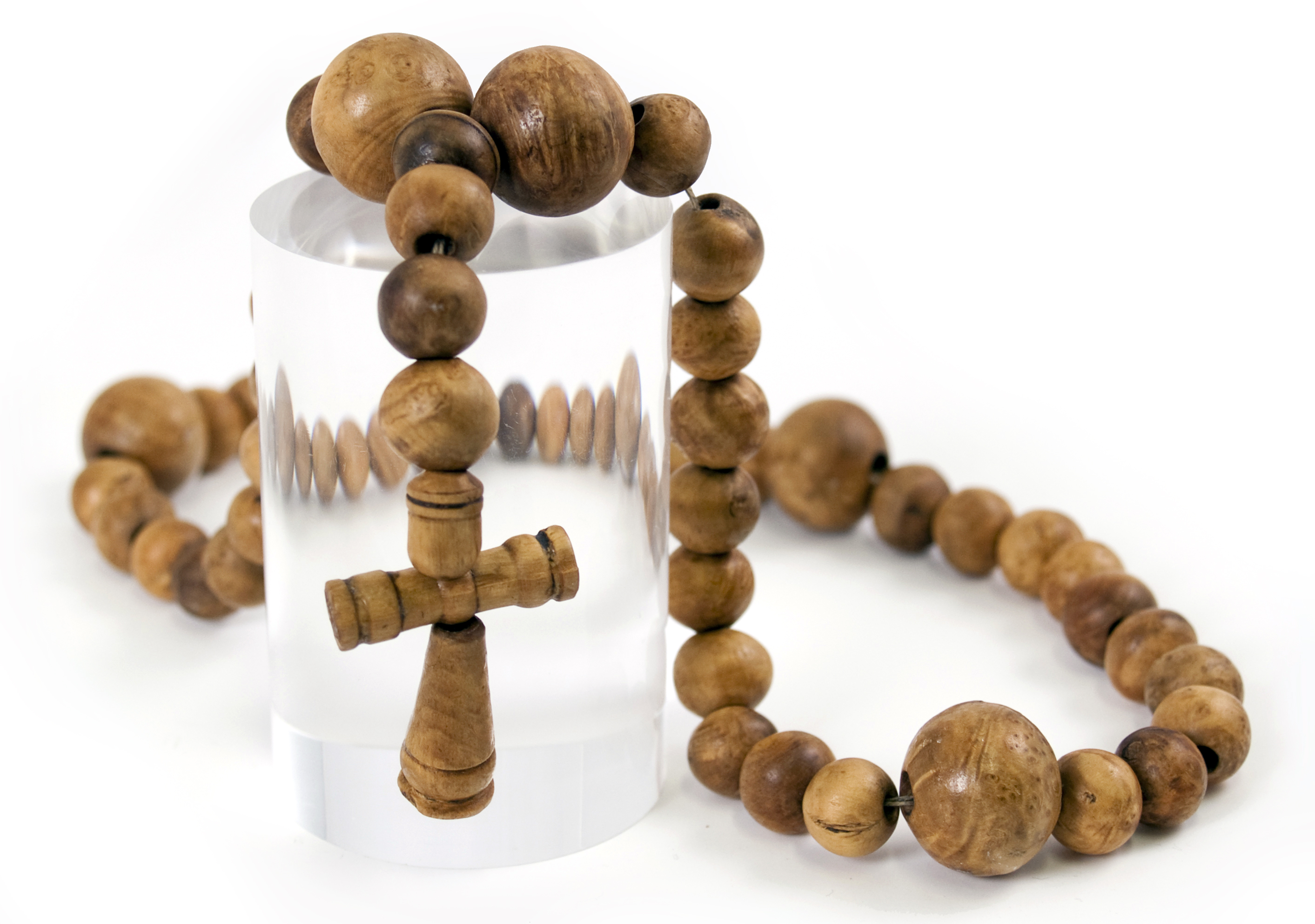 A rosary found on board the carrack Mary Rose.